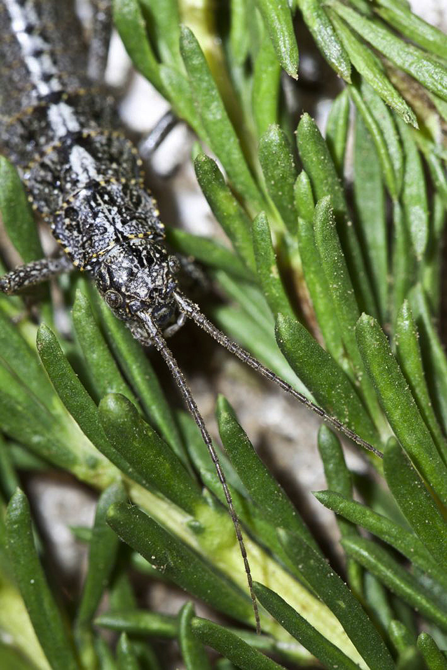 The genus Timema, a species of walking stick insect, has been asexual for over a million years and has escaped extinction. (Photos by Bart Zijlstra)